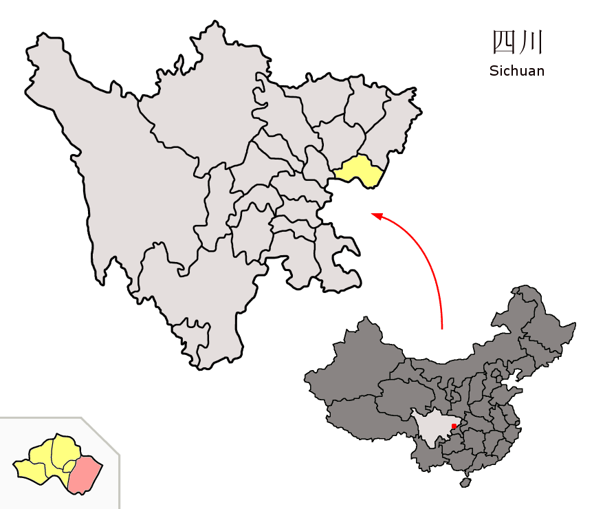 Location of Linshui County (pink) and Guang'an Prefecture (yellow) within Sichuan province of China Map drawn in october 2007 using various sources, mainly : Sichuan province administrative regions GIS data: 1:1M, County level, 1990 Sichuan Counties map from